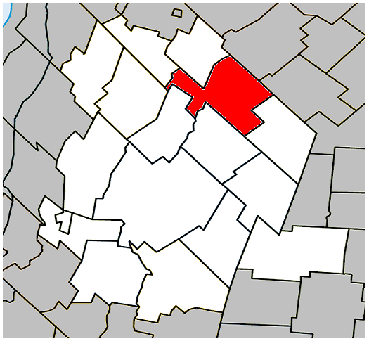 Location of Saint-Hugues, Quebec within Les Maskoutains Regional County Municipality.